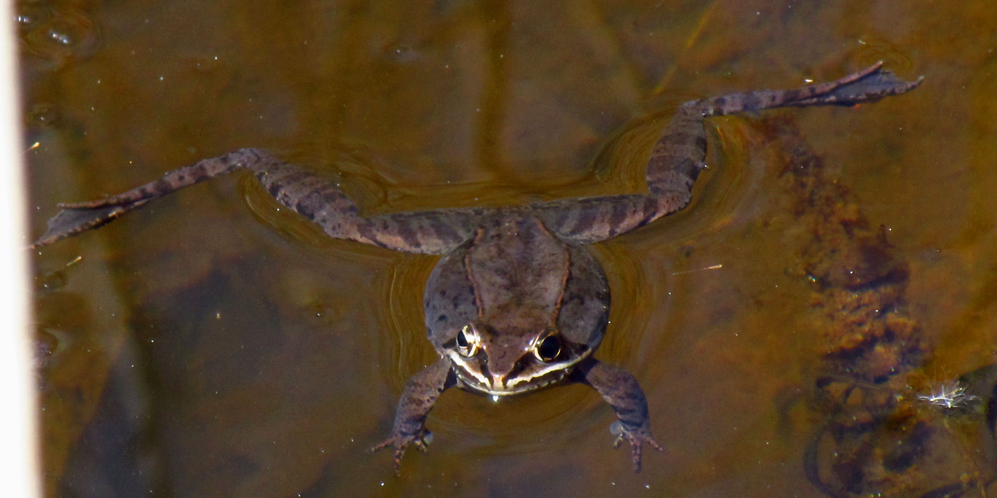 Wood Frog (Rana sylvatica), floating during spring mating season, Mer Bleue Conservation Area, Ottawa, Ontario, Canada